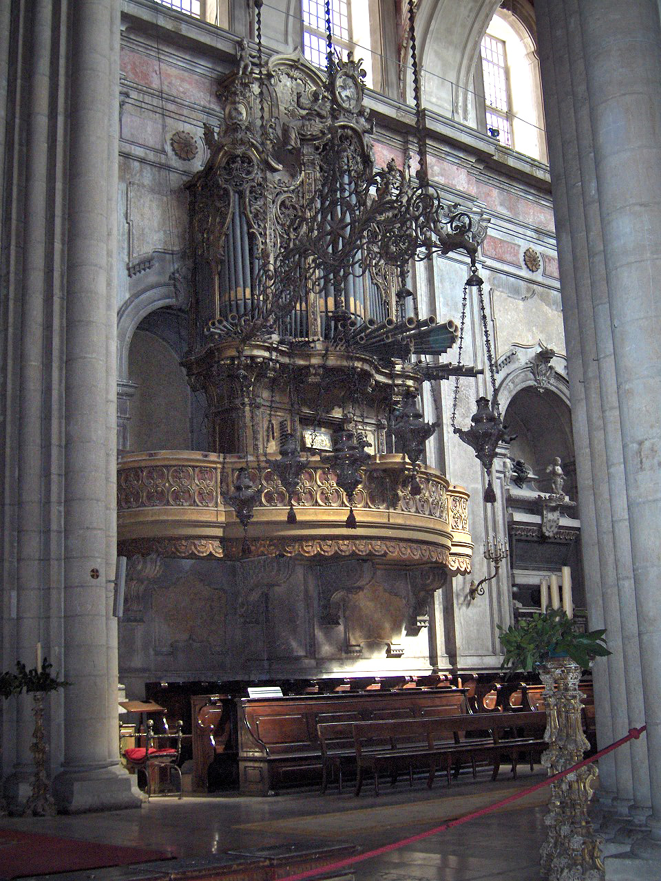 Organ of the Cathedral of Lisbon, Portugal